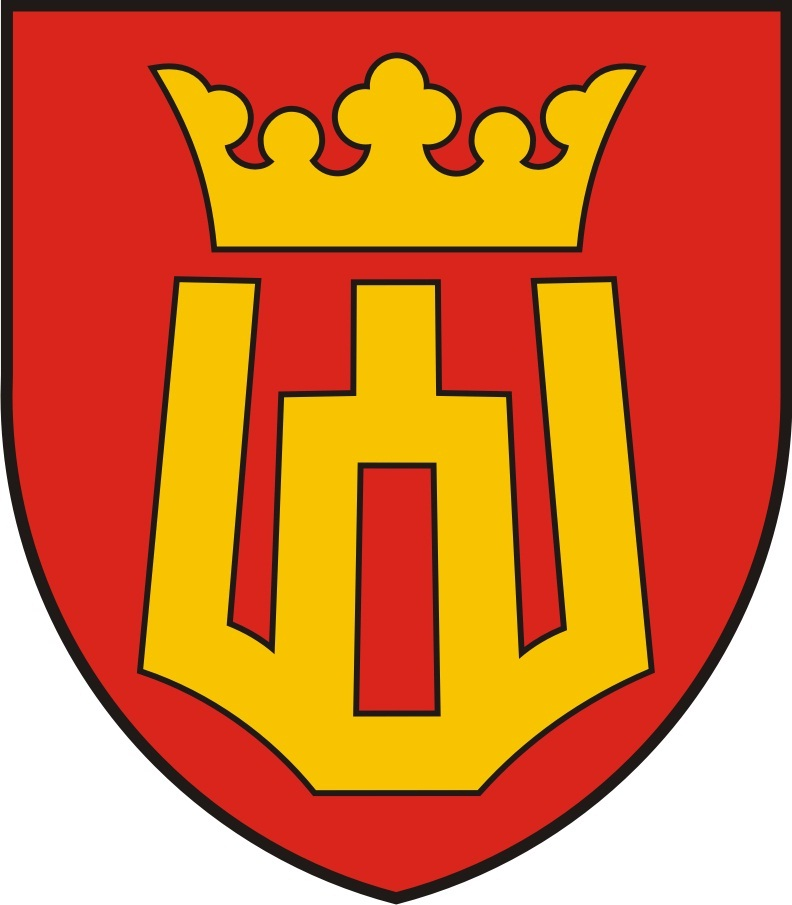 Insignia of the Lithuanian Grand Duke Gediminas Staff Battalion.